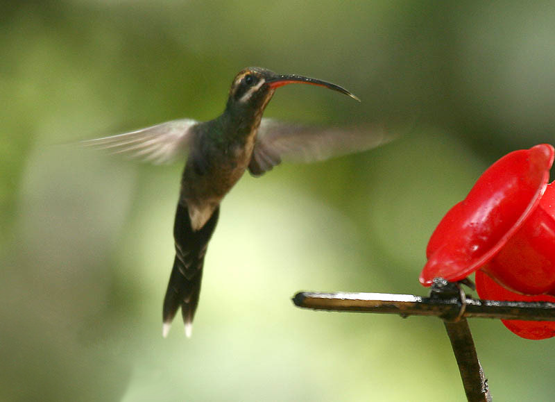 White-whiskered Hermit (Phaethornis yaruqui) at Milpe Bird Sanctuary, NW Ecuador 3/10/2007